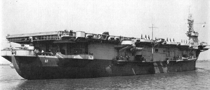 USS Card (CVE-11) underway, March 26, 1943.